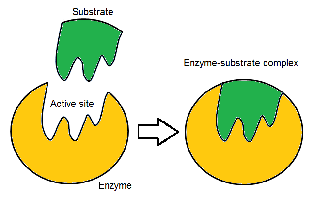 Lock and key model